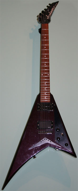 Gitara Jackson Randy Rhoads PS-3